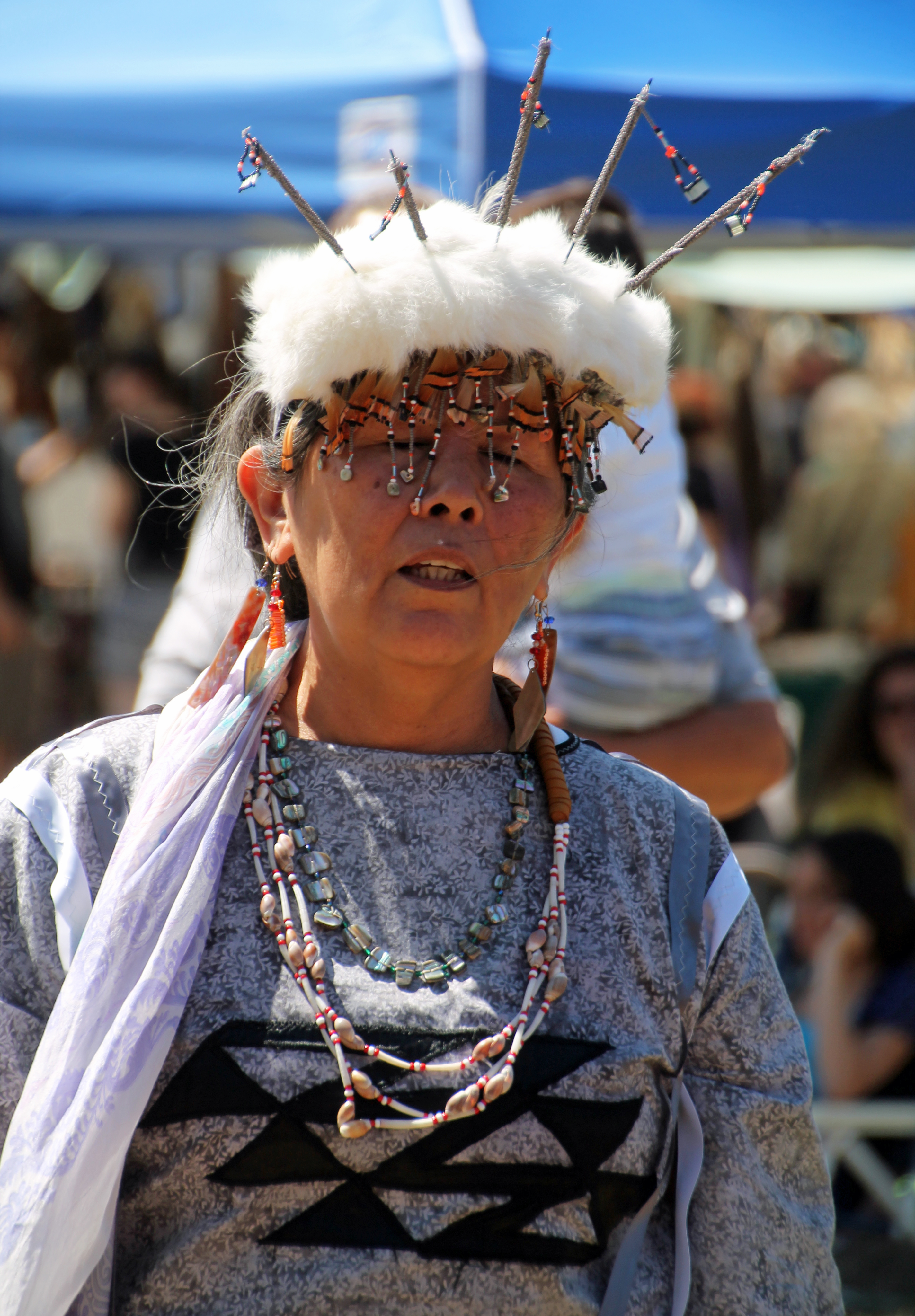 Suscol Intertribal Council 22nd Annual Pow-Wow, Yountville, California